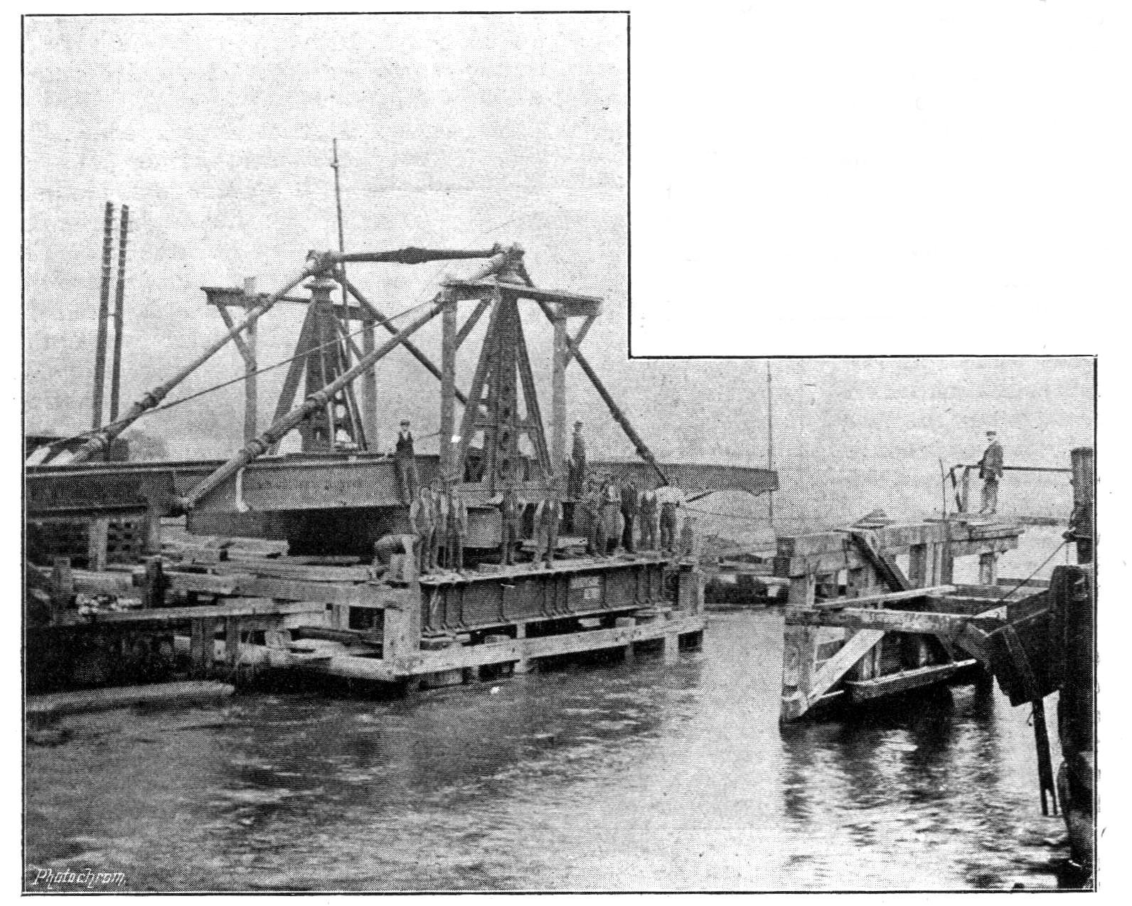 Trowse old swing bridge (Railway Magazine, 100, October 1905).jpg